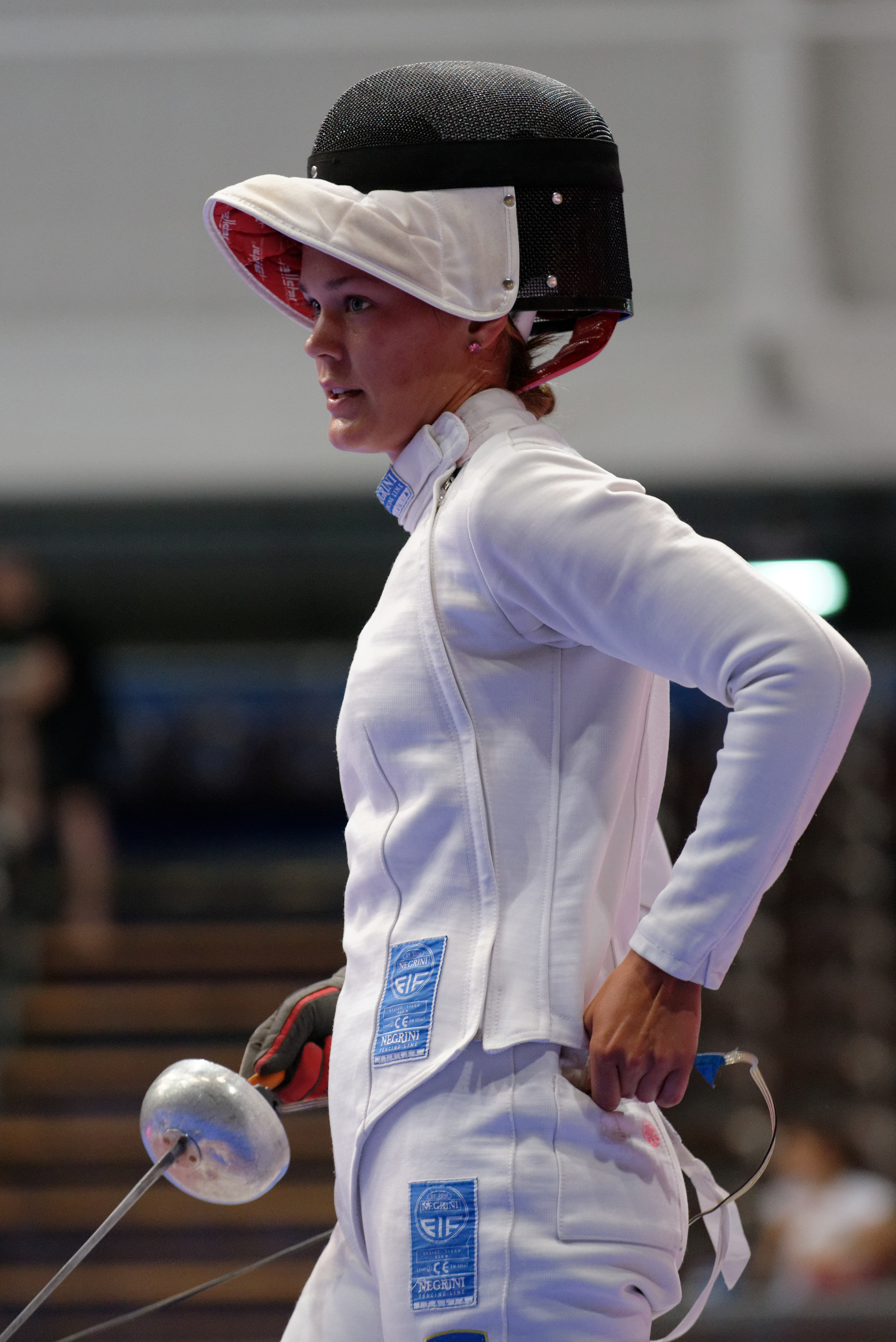 Kinka Barvestad of Sweden during her bout against Estonia's Kristina Kuusk in the women's épée table of 32 at the 2013 World Fencing Championships 2013 at Syma Hall in Budapest, 8 August 2013.